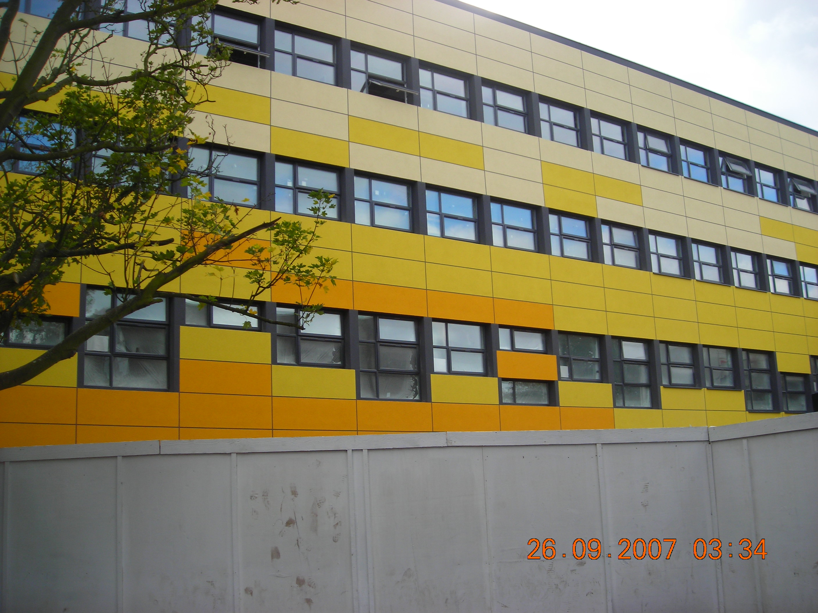 New clour livery to the new building of the school